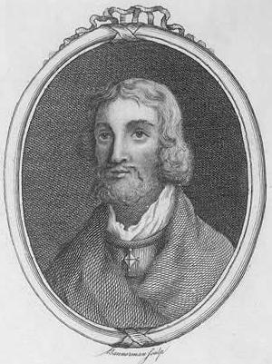 Portrait of Donald II of Scotland (889–900) Domnall Dásachtach, Rí Alban (889–900)